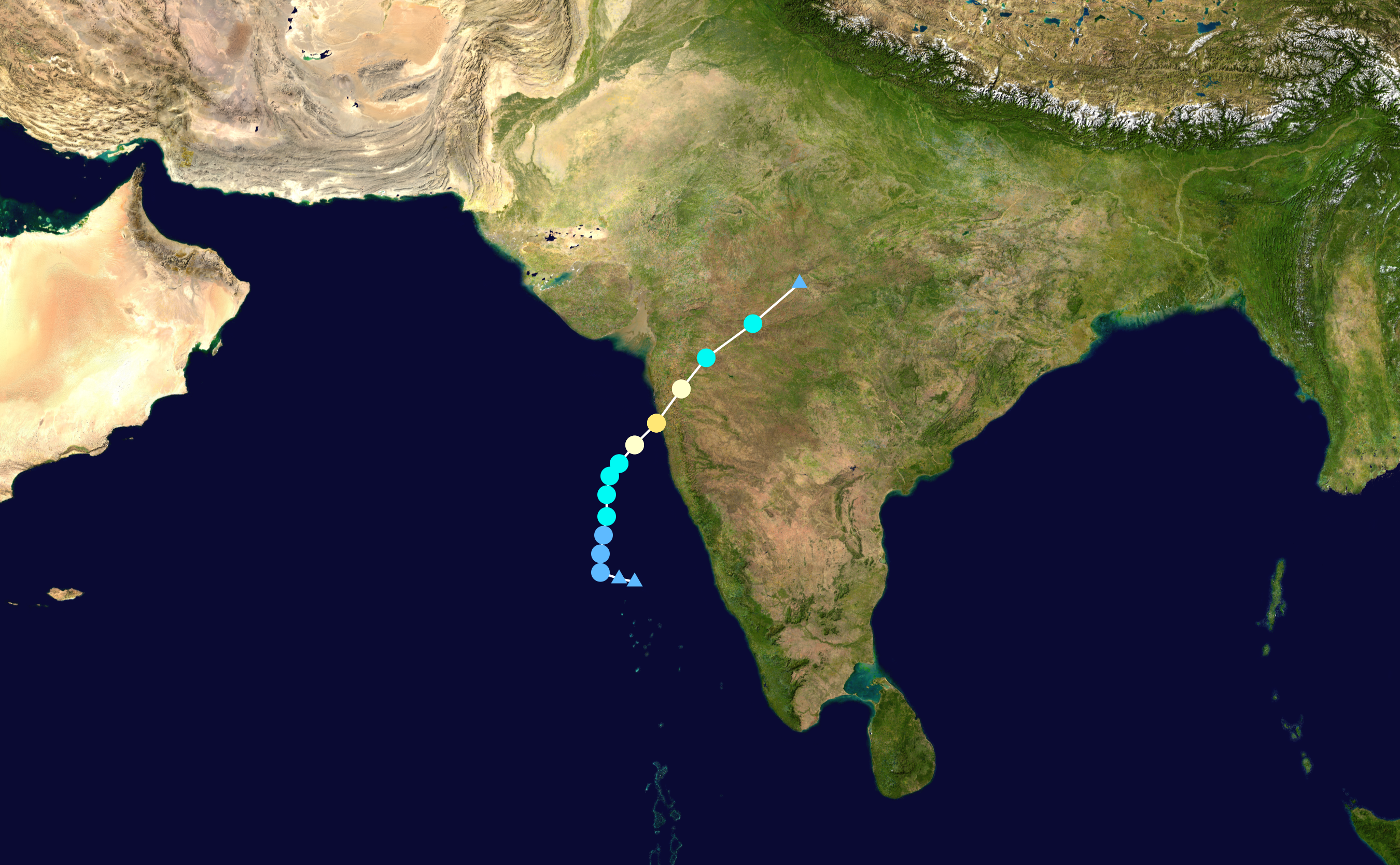 Track map of Severe Cyclonic Storm Nisarga of the 2020 North Indian Ocean cyclone season. The points show the location of the storm at 6-hour intervals. The colour represents the storm's maximum sustained wind speeds as classified in the Saffir–Simpson scale (see below), and the shape of the data points represent the nature of the storm, according to the legend below. Saffir–Simpson scale Tropical depression≤38 mph≤62 km/h Category 3111–129 mph178–208 km/h Tropical storm39–73 mph63–118 km/h Category 4130–156 mph209–251 km/h Category 174–95 mph119–153 km/h Category 5≥157 mph≥252 km/h Category 296–110 mph154–177 km/h Unknown Storm type Tropical cyclone Subtropical cyclone Extratropical cyclone / Remnant low / Tropical disturbance / Monsoon depression